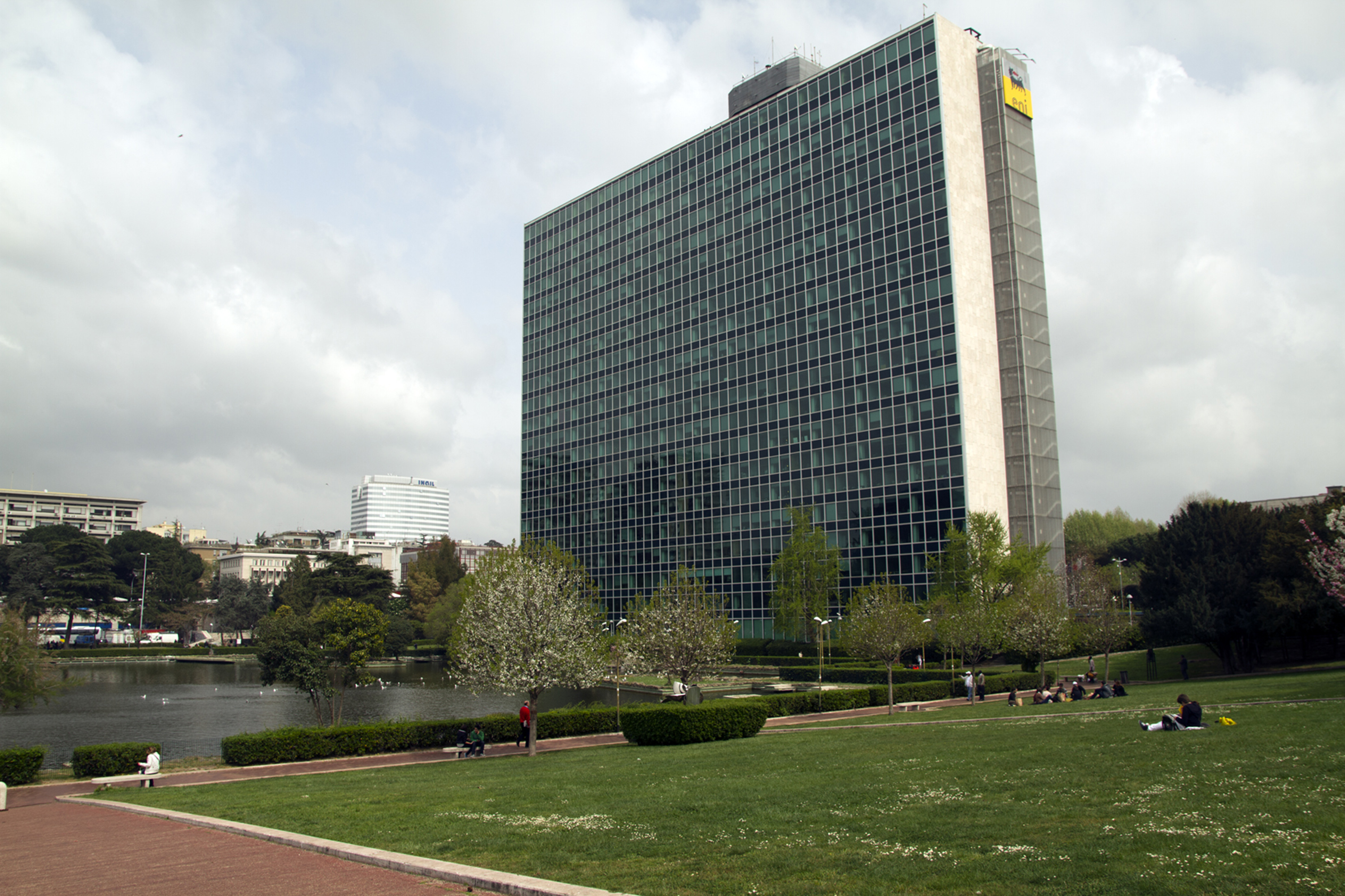 The Eni building, Quartiere XXXII Europa, Roma, Lazio, Italy